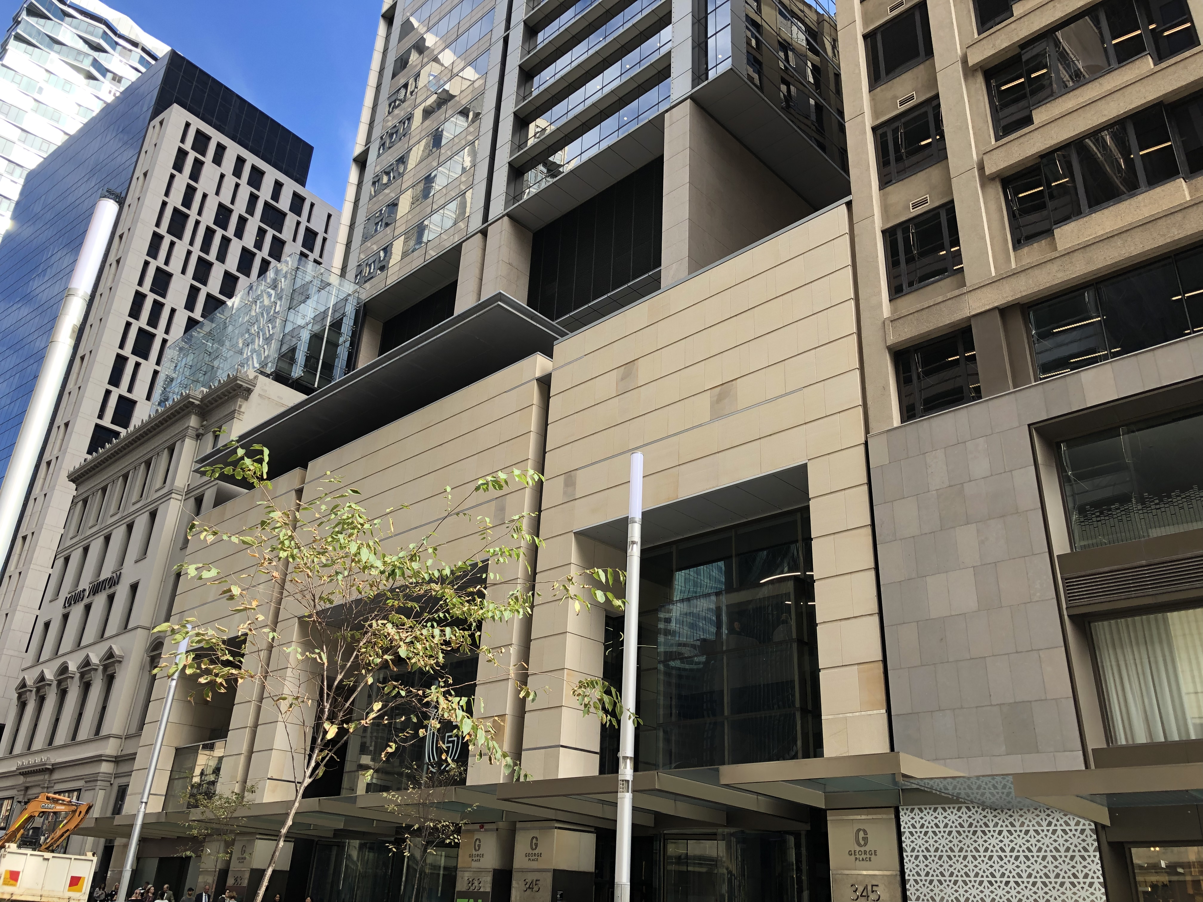 This is a site of Employers Mutual Limited in Sydney , Australia